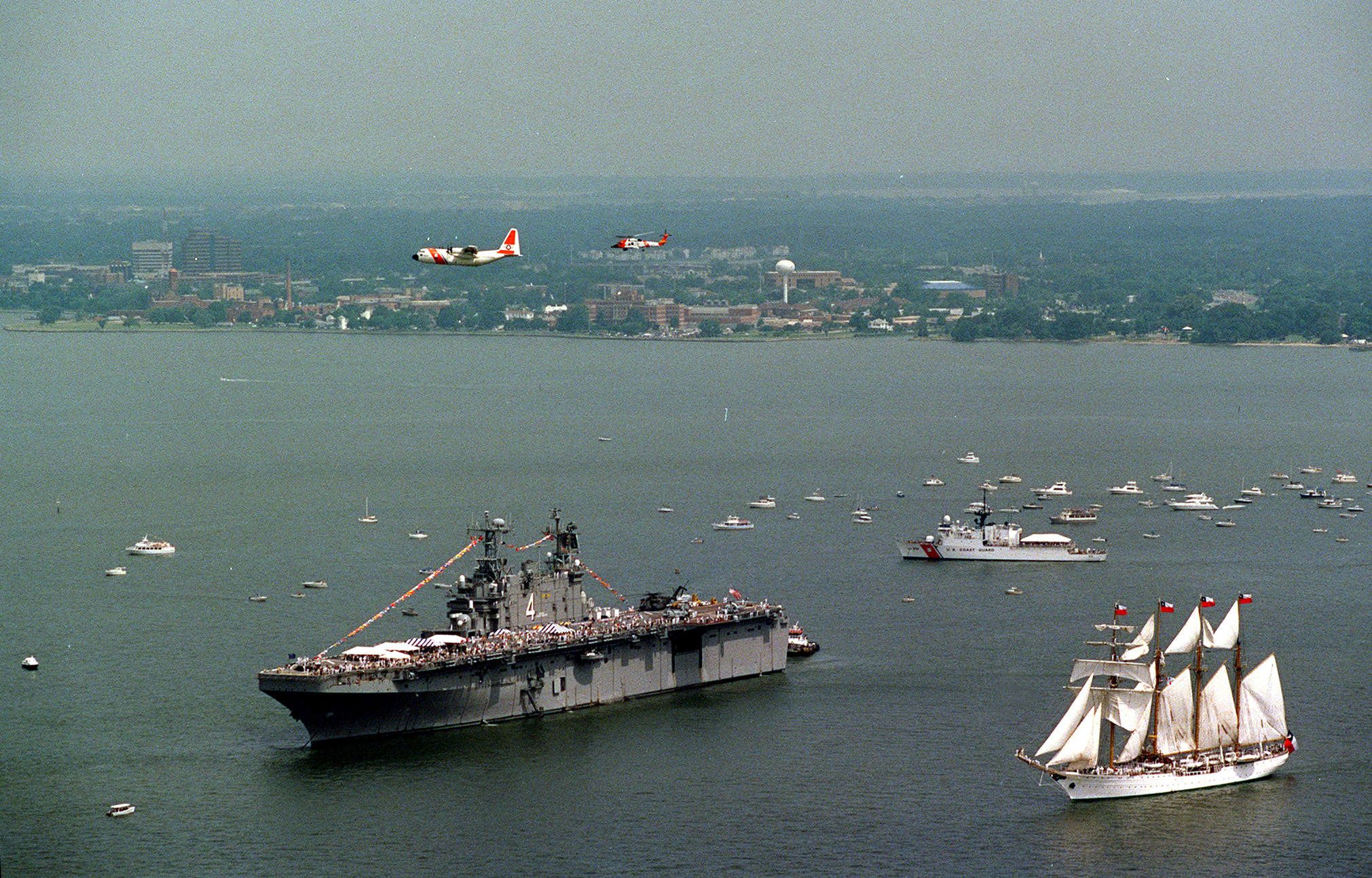 A tall ship passes by the USS Nassau (LHA 4) during the Operation Sail 2000 parade of sail in Hampton, Va., on June 16, 2000. The program is designed to promote good will and cooperation between the U.S. and foreign navies while celebrating global maritime heritage.